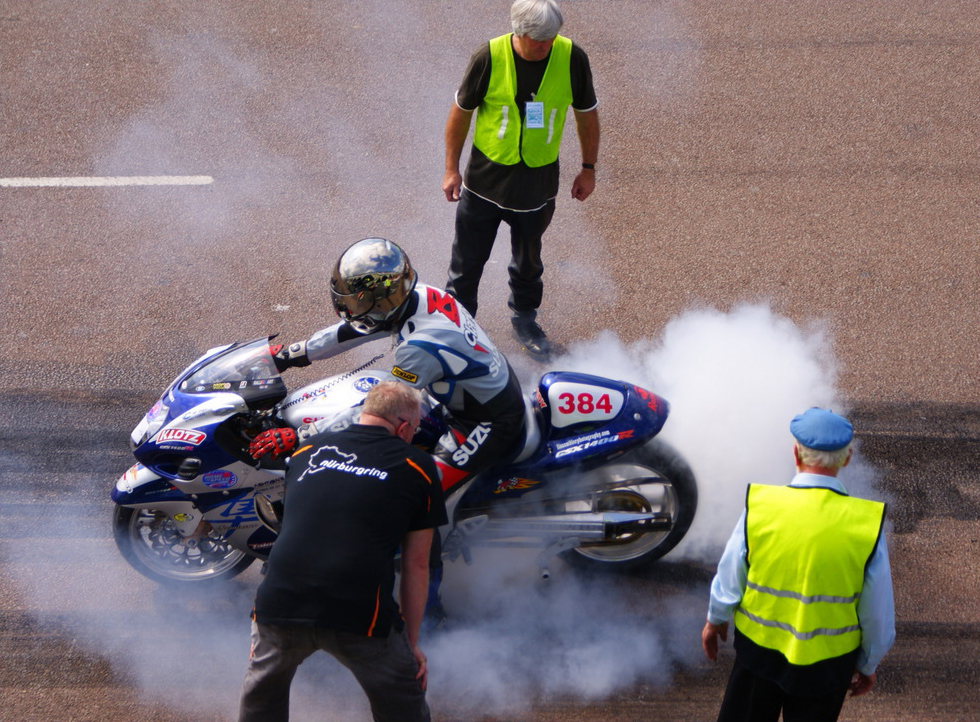 Brighton Speed Trials 2008. Suzuki GSX-1300R Hayabusa burnout at race track.